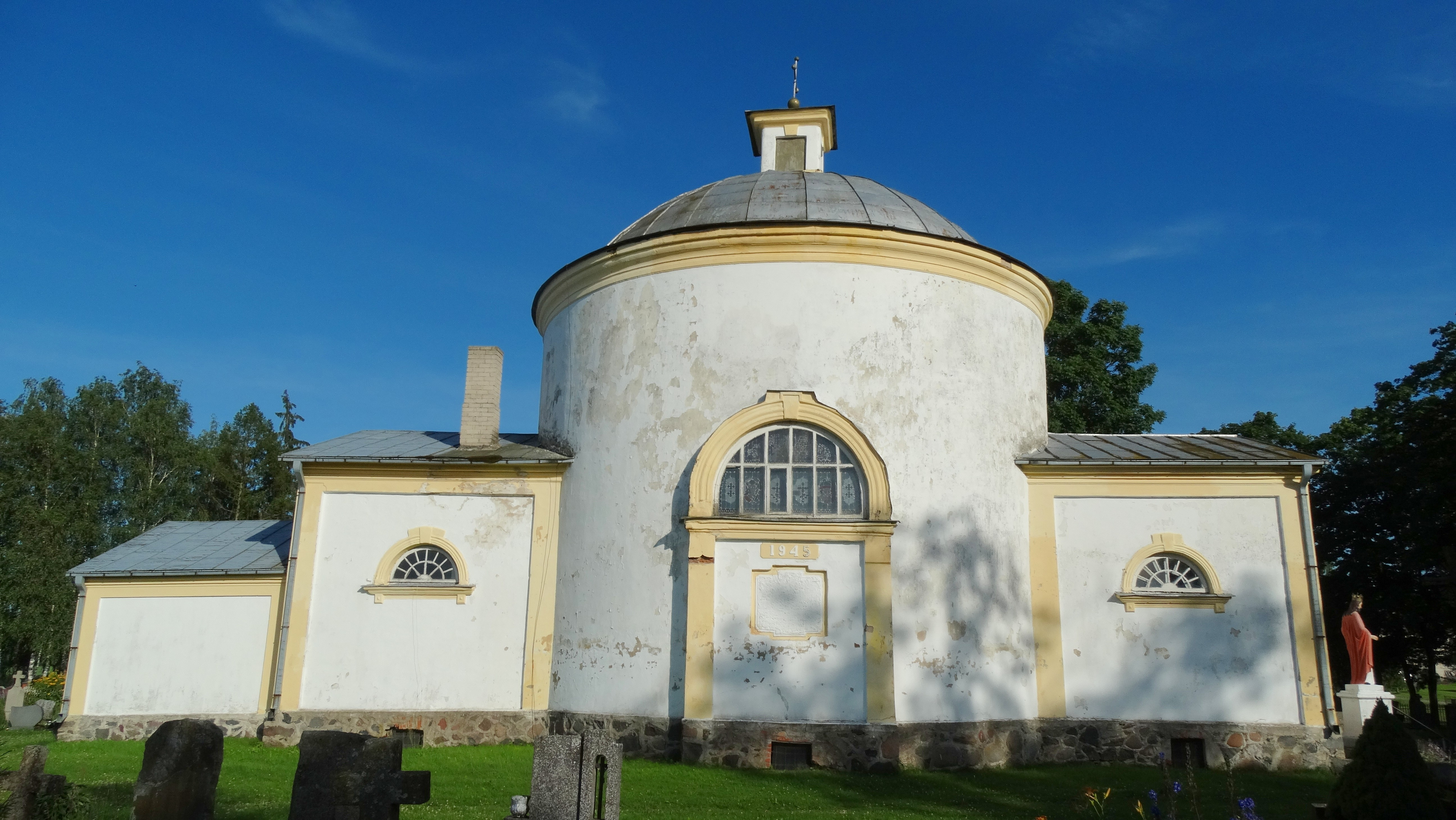 Church of the Providence of God in Labūnava, Kėdainiai District, Lithuania